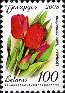 Stamp of Belarus